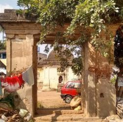 Kalyanavenkatesaperumaltemple கல்யாணவெங்கடேசப்பெருமாள் கோயில்